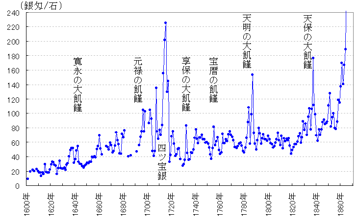 Rice-rate